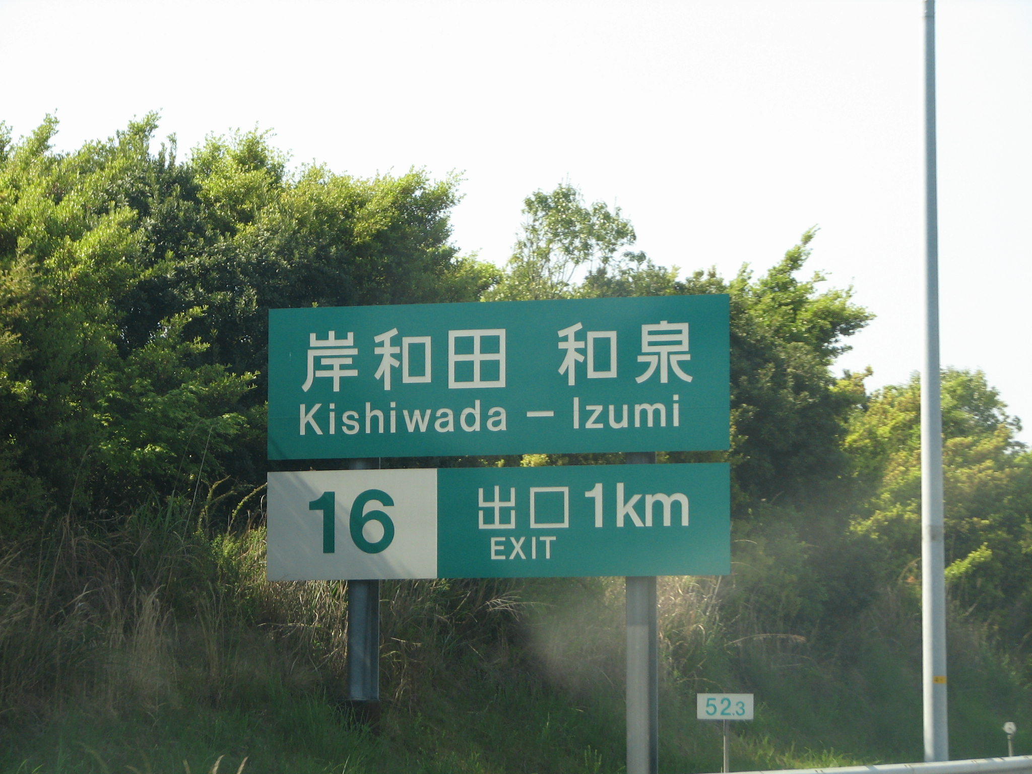 Kishiwada-Izumi IC